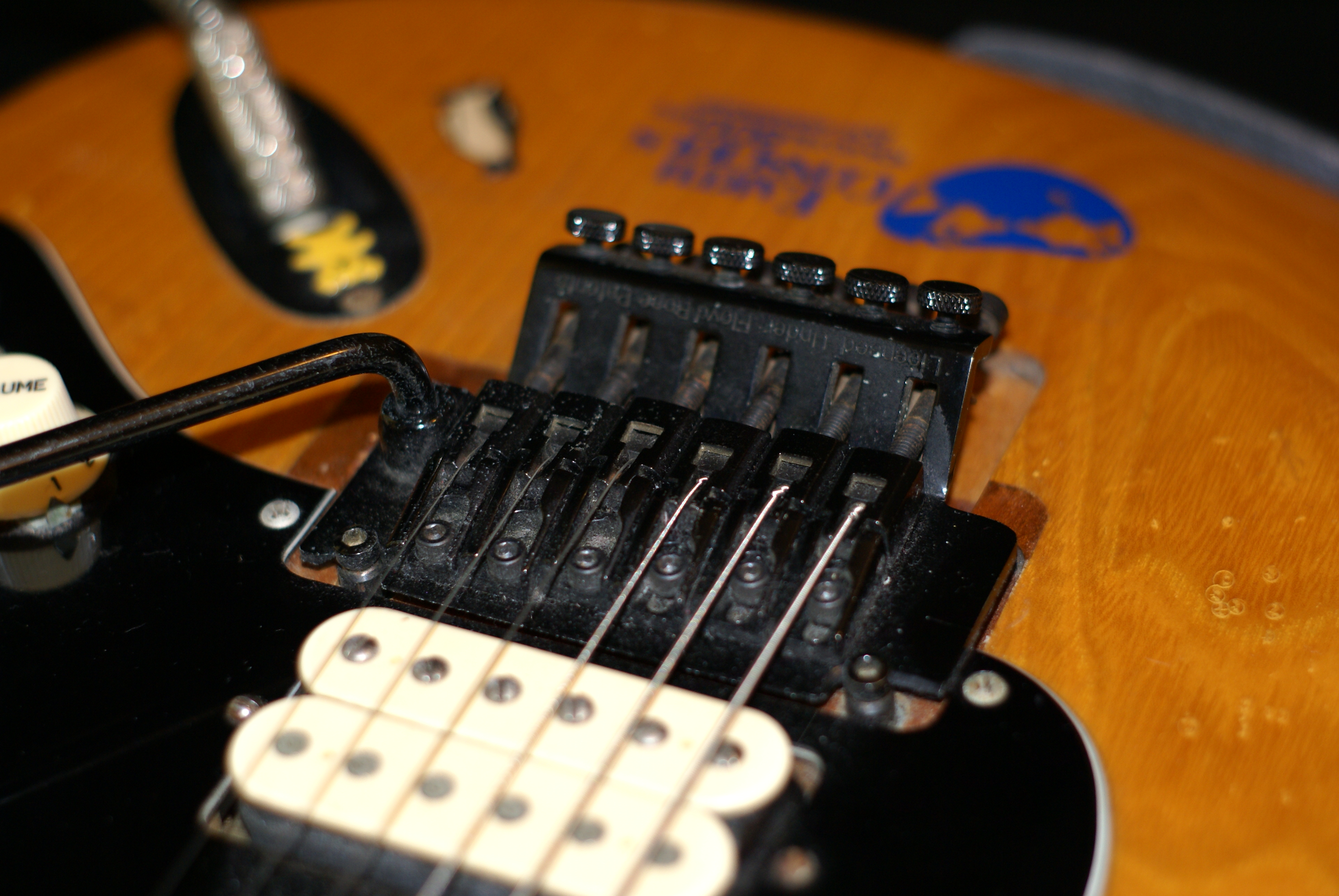 Floyd Rose licensed tremolo-unit, G-GOTOH "GE1996T". Earliest version (assembled in 1996).